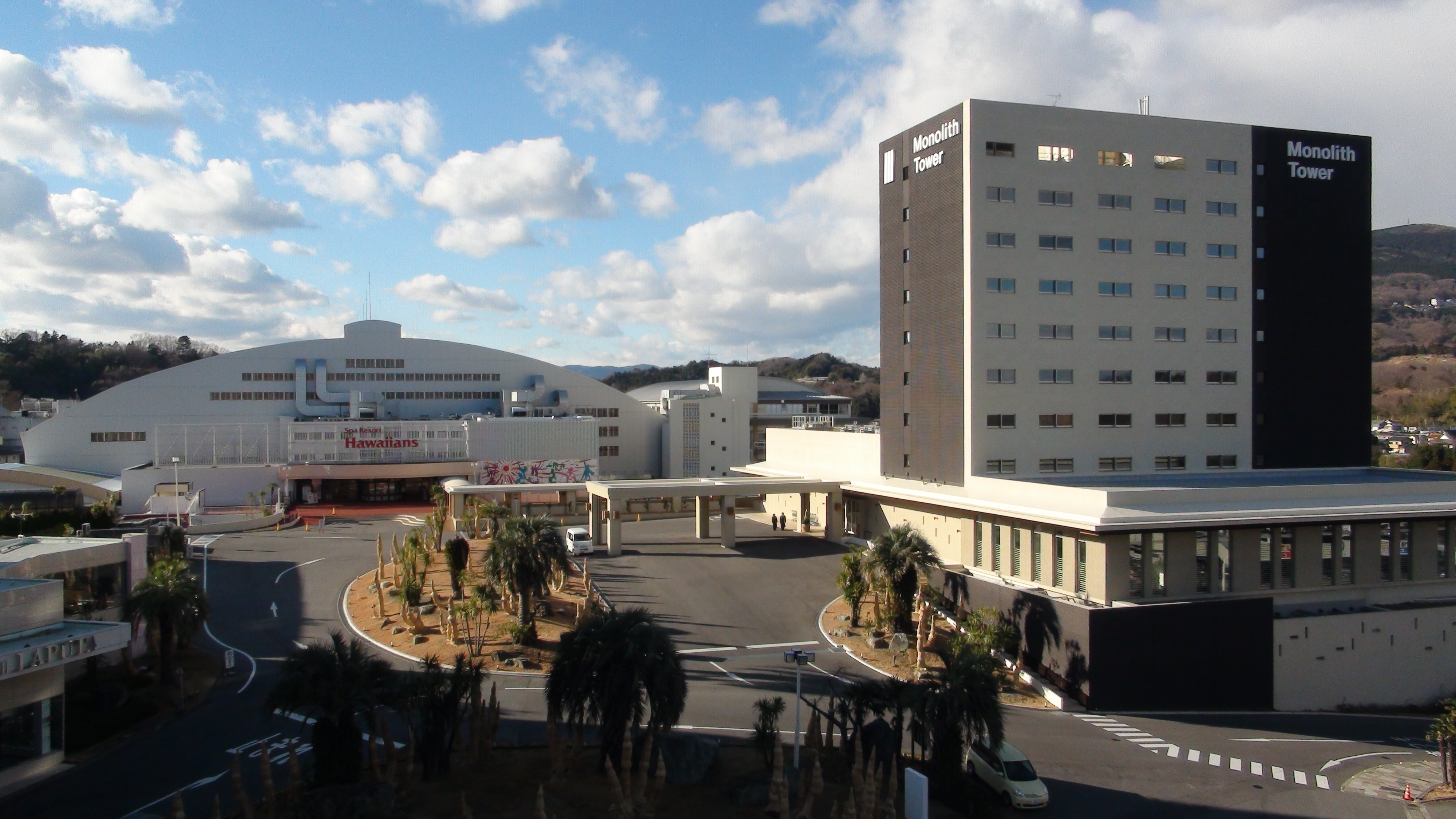 Spa Resort Hawaiians appearance.Jan.2014